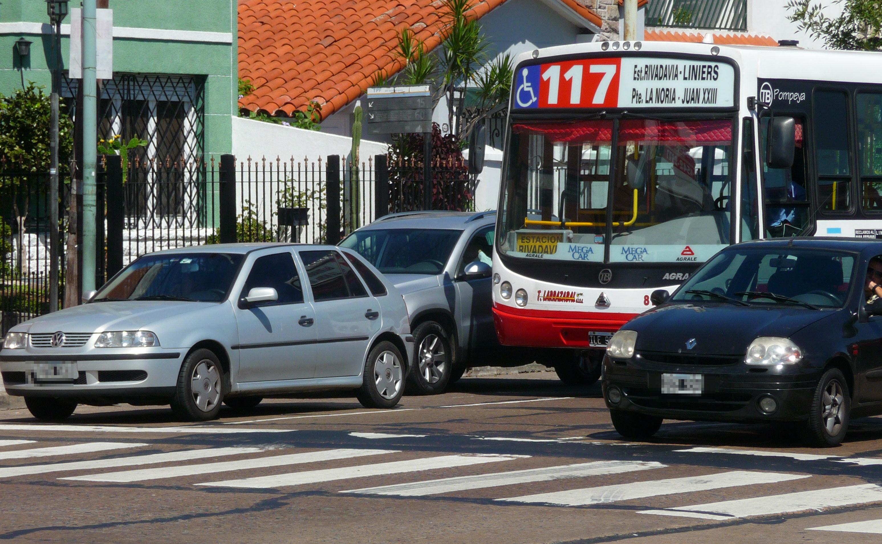 Todo Bus Pompeya bus (reg. ILE 9..., #84..) with Agrale chassis in Buenos Aires, Argentina. Colectivo, line 117, Transporte Larrazábal operator.